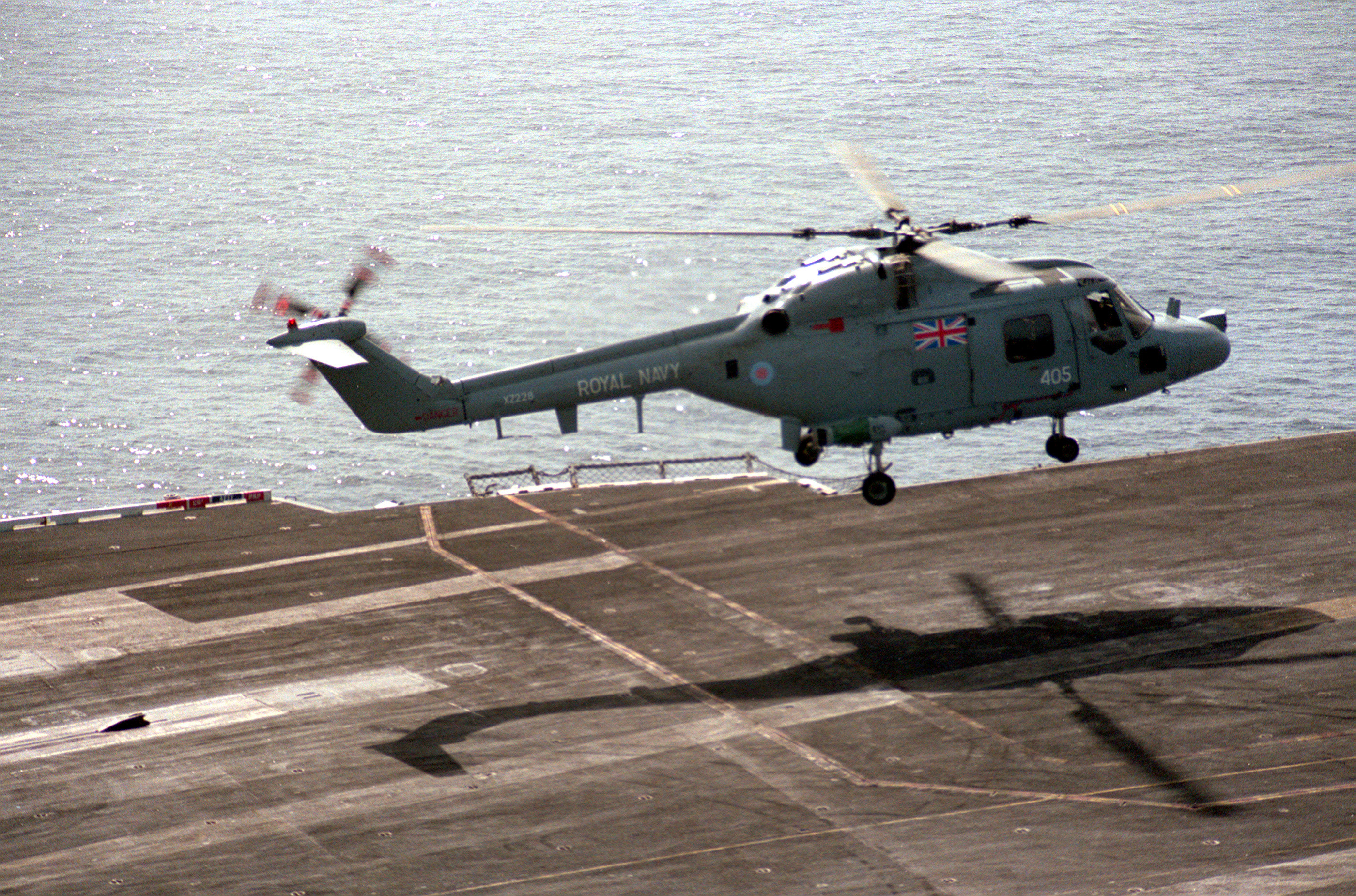 A British Royal Navy Westland Lynx HAS Mk. 3 helicopter lands on the aircraft carrier USS Forrestal (CV-59) on 22 Jul 1988.